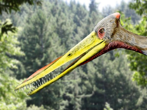 Feilongus